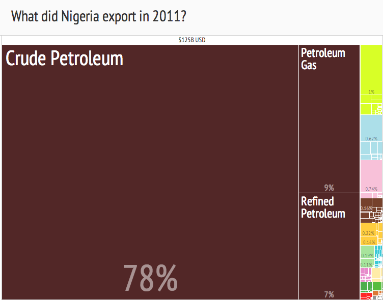 Nigeria Export Treemap from MIT Harvard Atlas of Economic Complexity